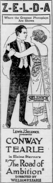 Advertisement for the American drama film The Road of Ambition (1920) with Conway Tearle, on page 11 of the March 16, 1921 Duluth Herald.